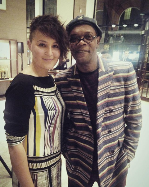 Viktorija Grigorjevaite with Samuel Jackson at Asprey charity event 2017